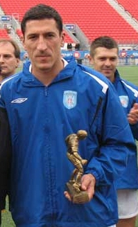 Mirko Medic of Serbian White Eagles wins Defender of the Year in 2009. Saša Viciknez can be seen in the background on the right.